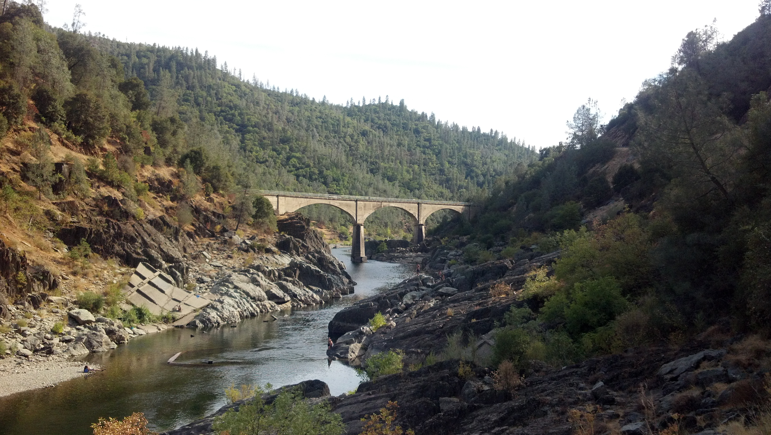 Mountain Quarries Bridge